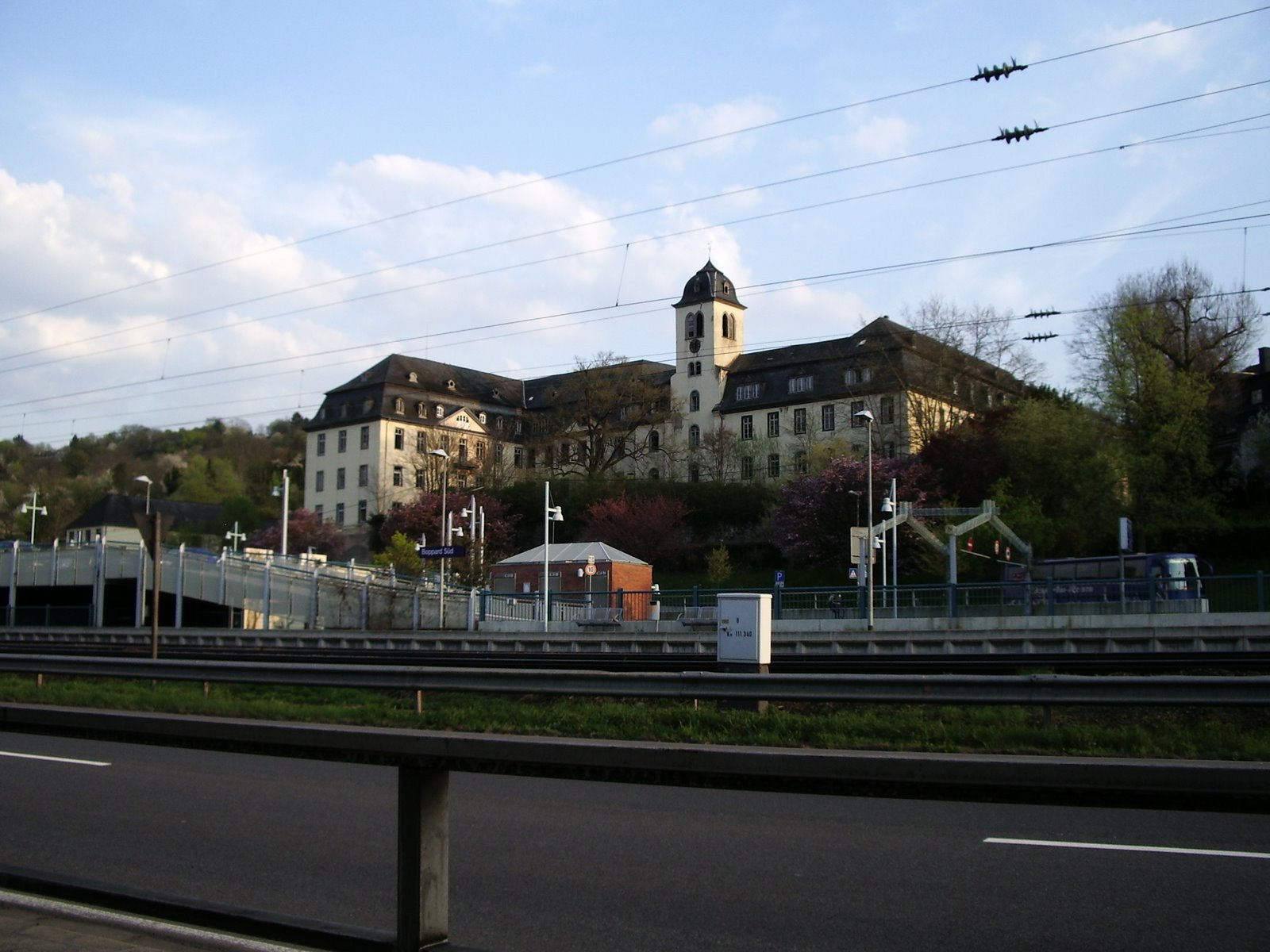 Monastery "Marienberg" in Boppard